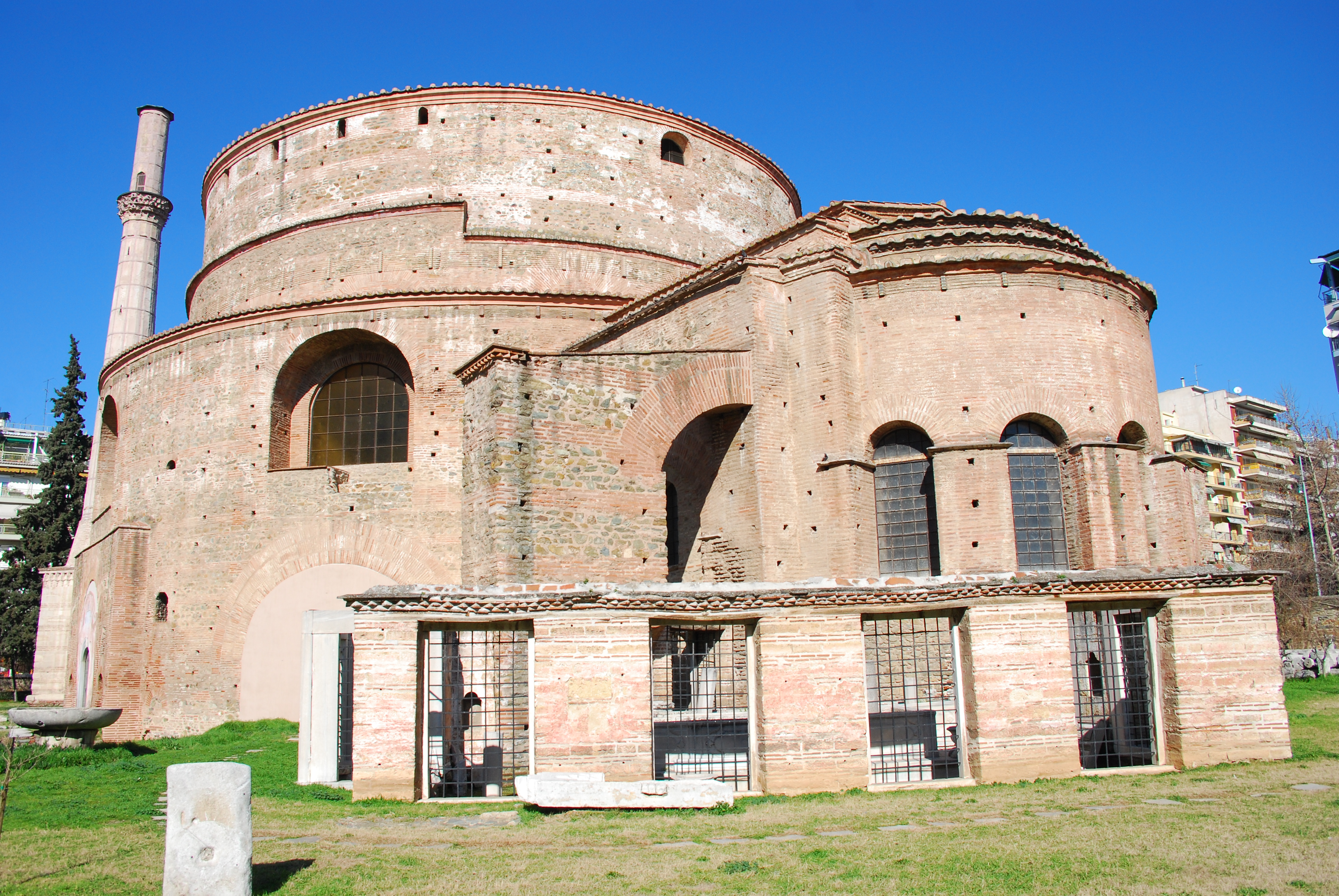 The altar view of the Rotunda of Galerius, initially a Mausoleum of Roman Emperor Galerius, later a Christian church, and then a mosque. It is now the Church of the Rotunda and a UNESCO World Heritage Site.